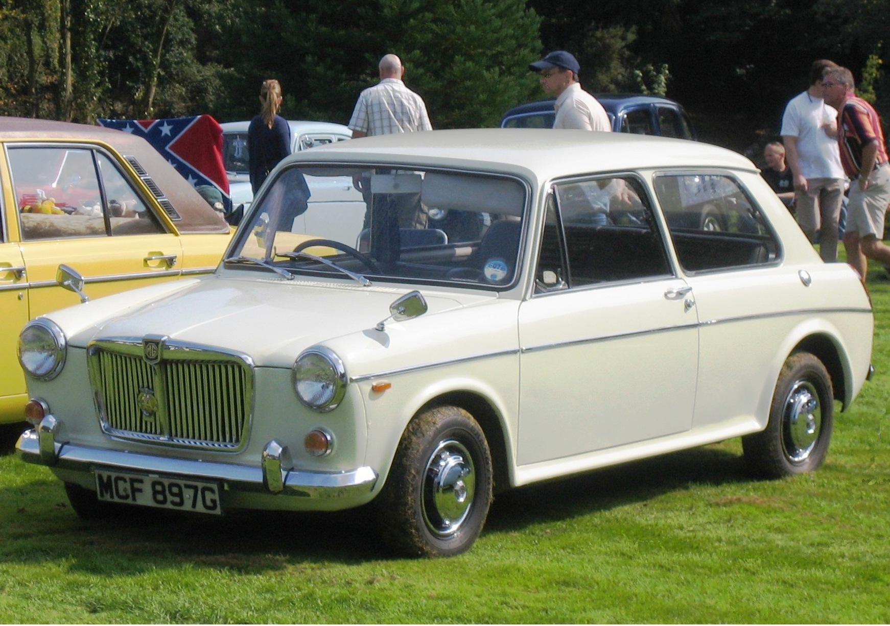 MG 1300, 1969 at Oldtimerfest in north Essex